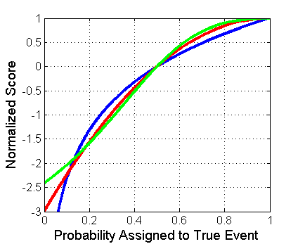 This shows Normalized proper scoring rules; Quadratic (red), Spherical (green) and logarithmic(blue)